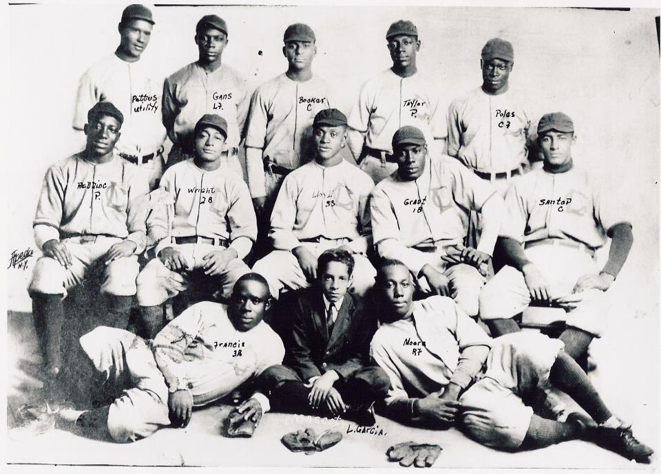 1912 New York Lincoln Giants photo, widely distributed to Newspapers across the Northeast and United States. Back Row, William Thomas "Bill" Pettus, Robert Edward "Judy" Gans, James "Pete" Booker, Benjamin Harrison "Ben" Taylor, Spotswood "Spot" Poles. Middle Row: "Cannonball" Richard "Dick" Redding, George Martin "Jess" Wright, John Henry "Pop" Lloyd, Leroy Grant, Louis Santop Loftin. Front Row, William Henry "Bill" Francis, L. Garcia, Eugene Moore.